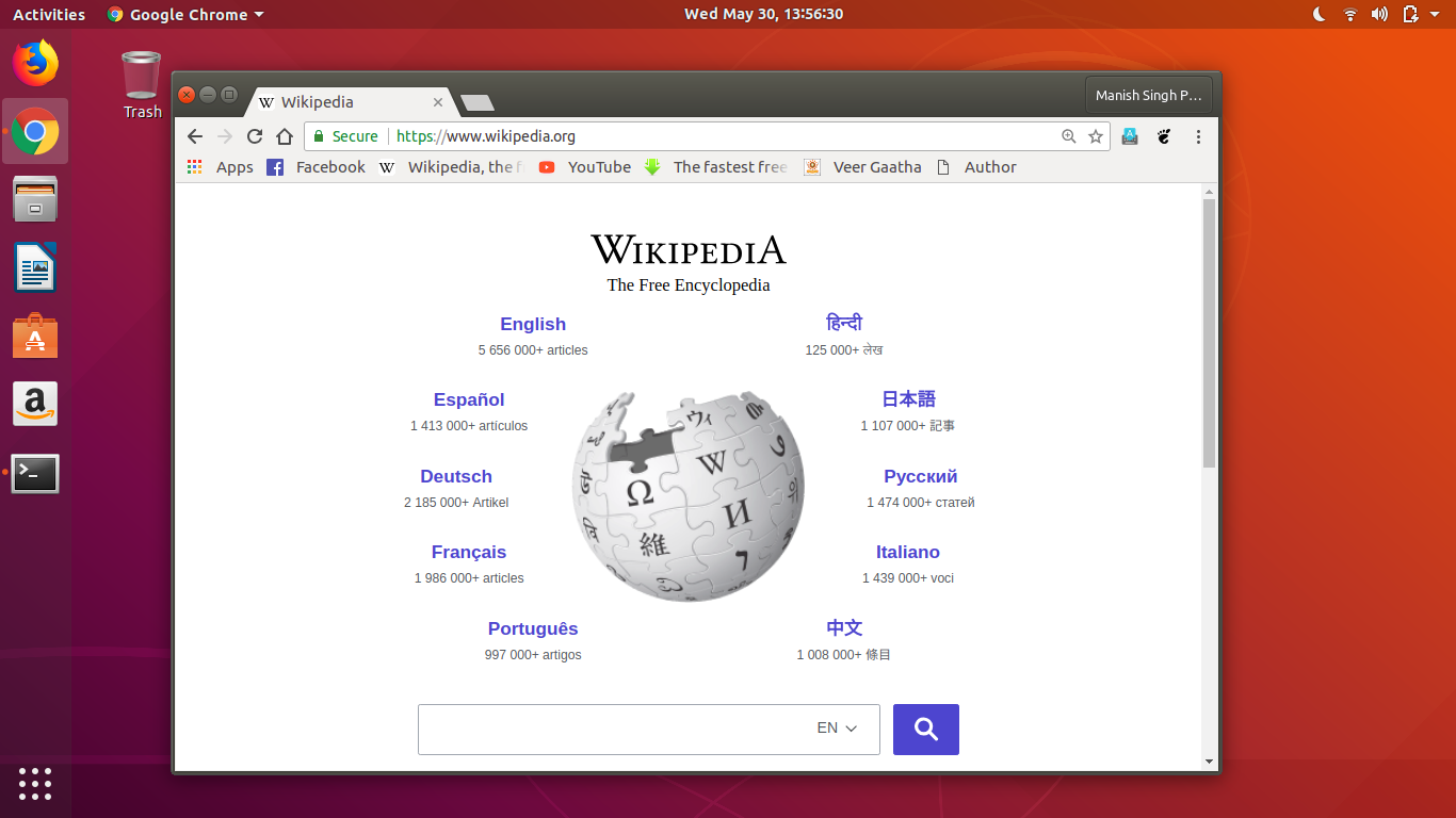 Ubuntu 18.04 , The Worlds' Popular Linux Distro